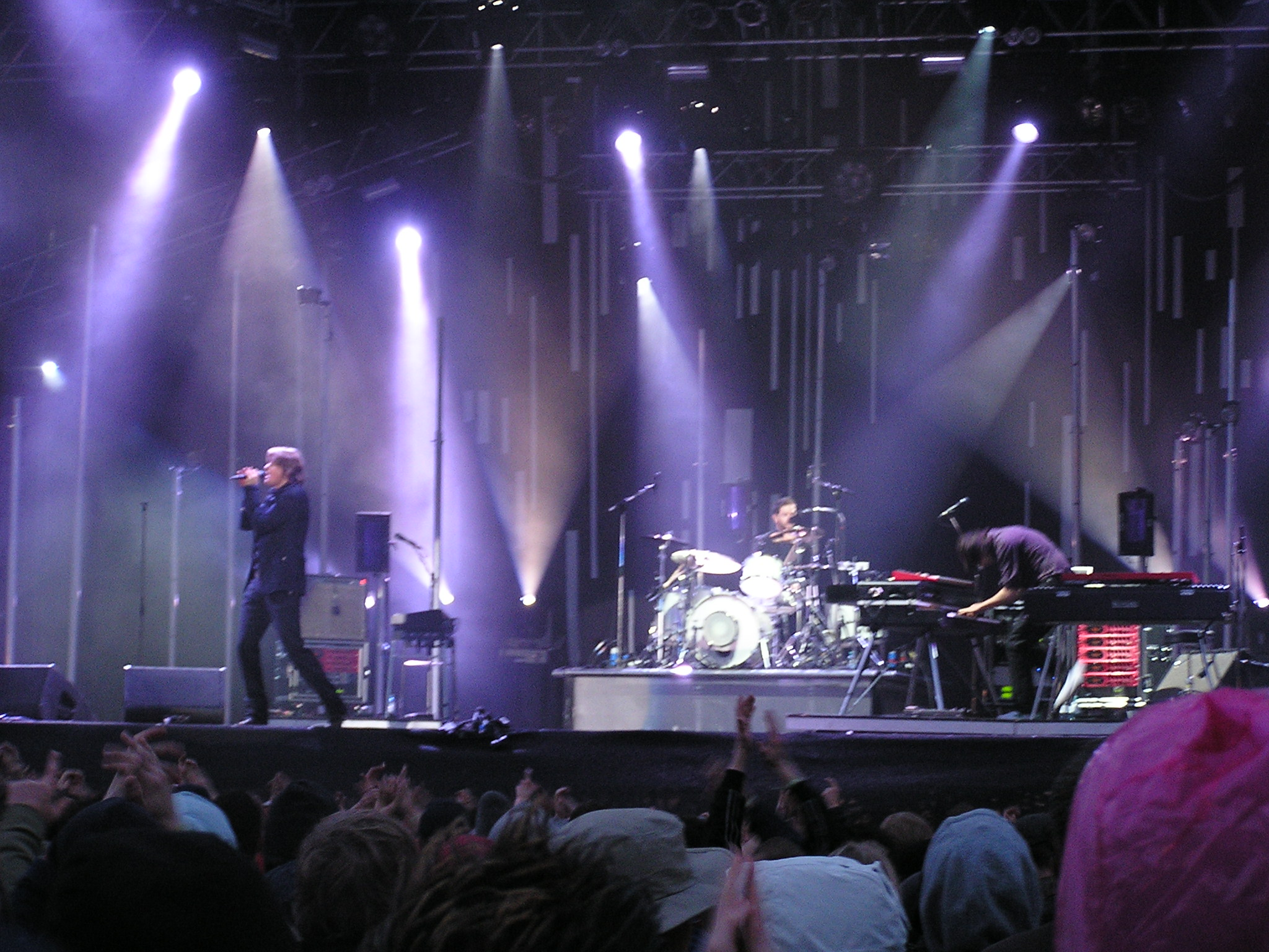 Keane Concert